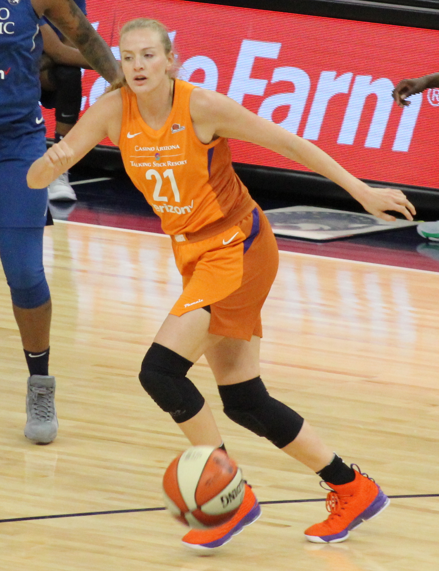 Marie Gülich of the Phoenix Mercury in 2018